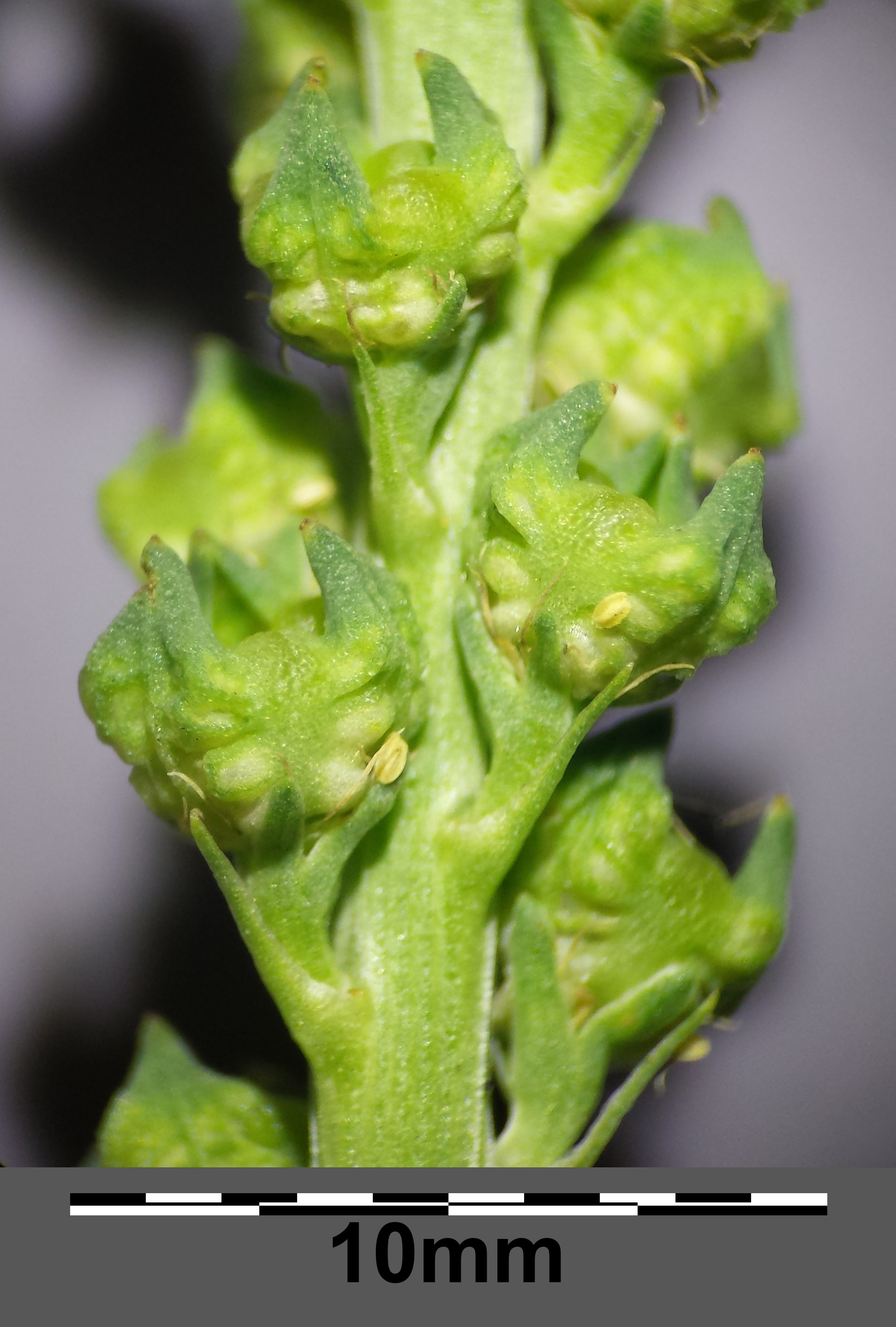 Infructescence Taxonym: Reseda luteola ss Fischer et al. EfÖLS 2008 ISBN 978-3-85474-187-9 Location: Neue Donau next to Rollerdamm, Vienna-Floridsdorf - ca. 160 m a.s.l. Habitat: dry meadows